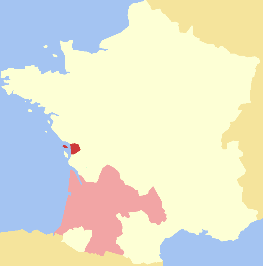 Aunis with Aquitaine.